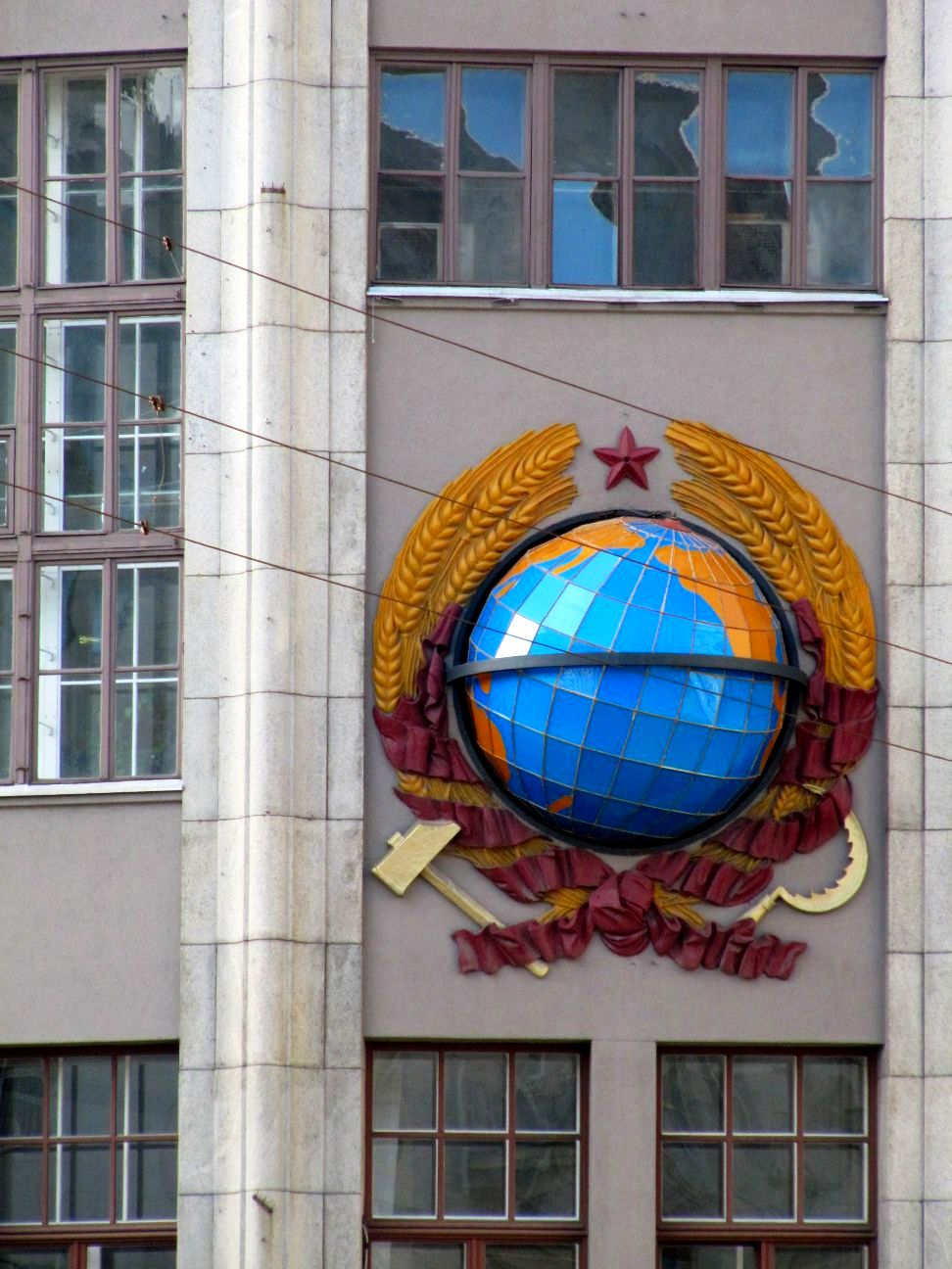 Central_Telegraph_Blazon_of_USSR-Moscow,Tverskaya_str